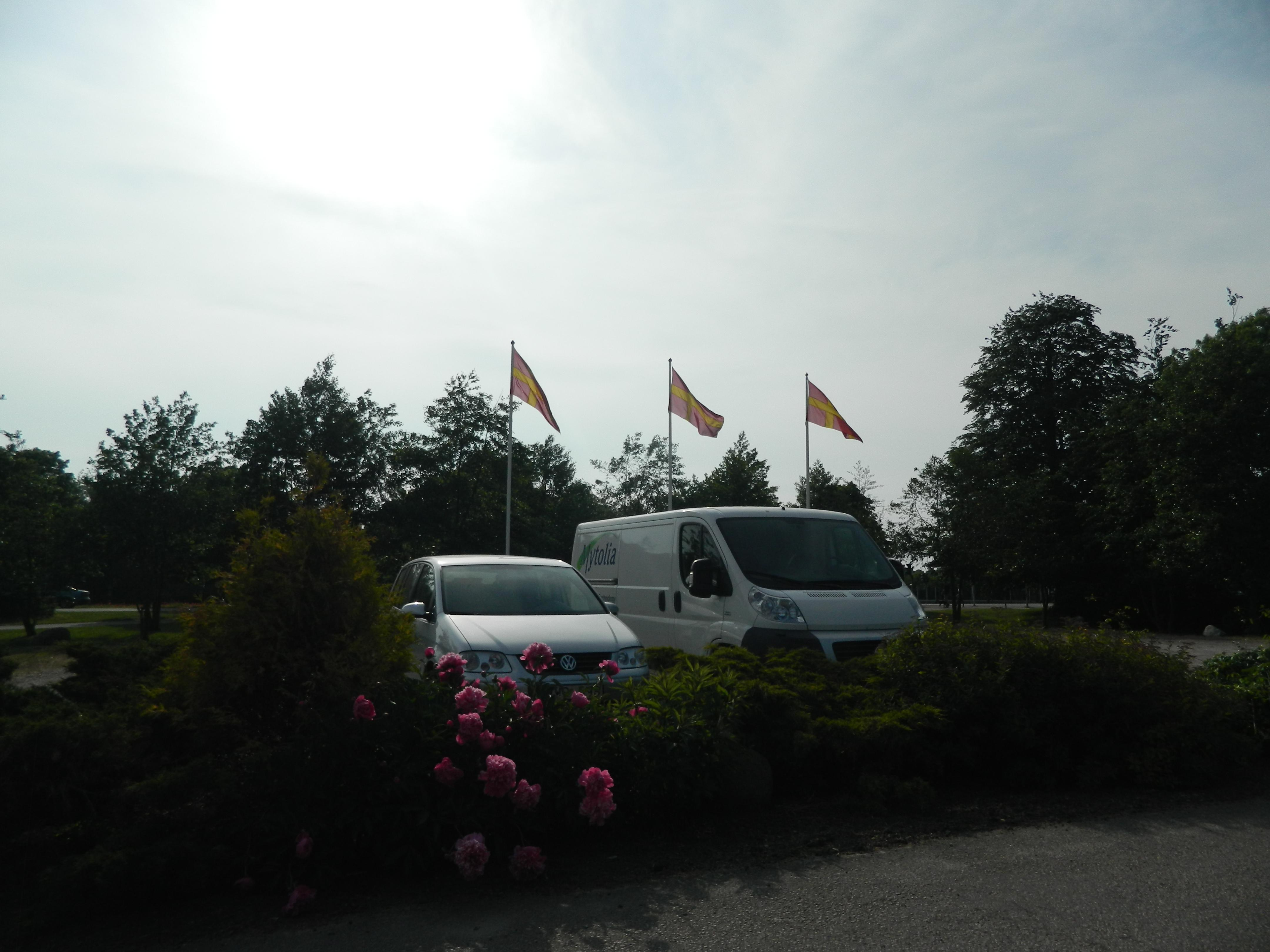 Scanian Flag. It represents the former Danish provinces in Sweden, the provinces of Scania, Blekinge and Halland.